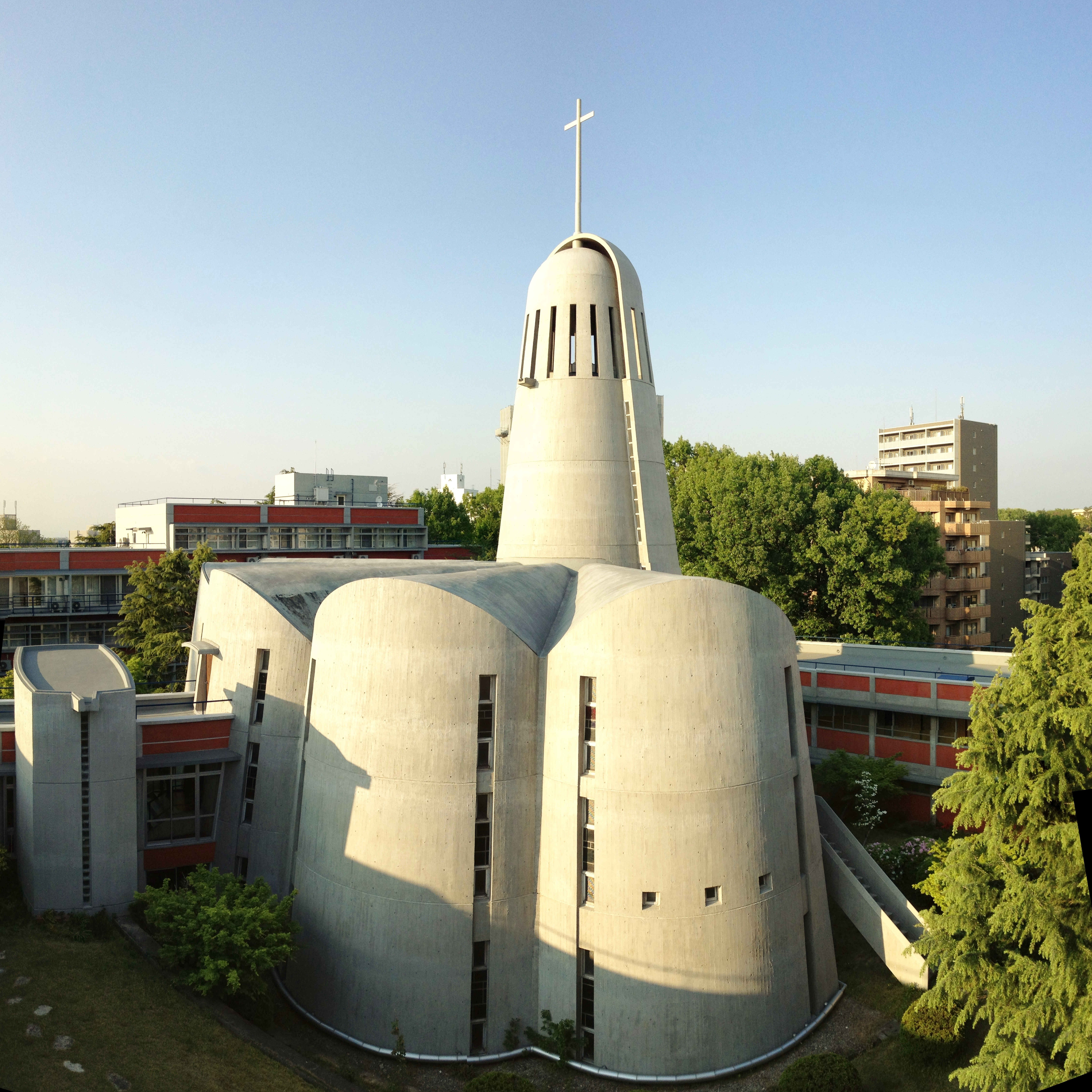 Divine Word Seminary Chapel of Nanzan University, Nagoya, central Japan.